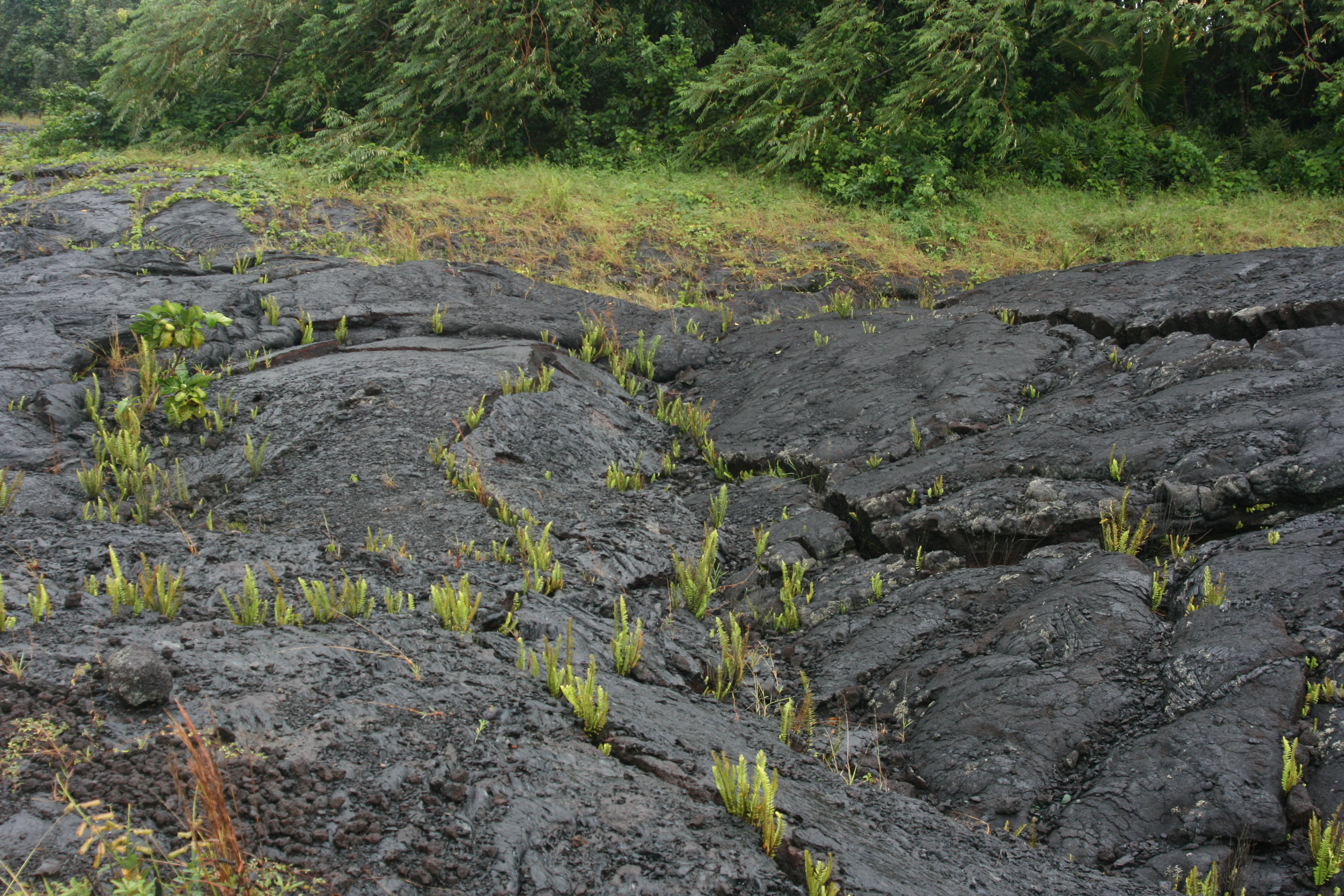 Plants colonising a recent pahoehoe lava flow on Hawaii (Big Island) by growing in the cracks on the upper surface of the lava flow.